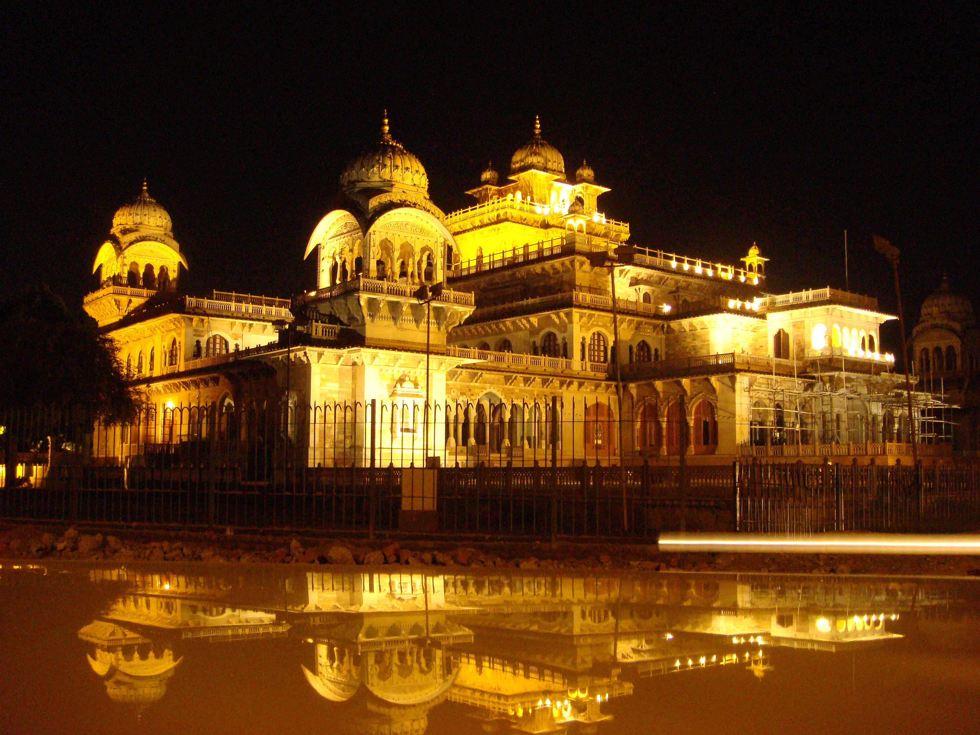 Albert Hall, or the Central Museum, Jaipur in Rajasthan, India (see the cropped version here Image:Albert hall cropped.JPG)